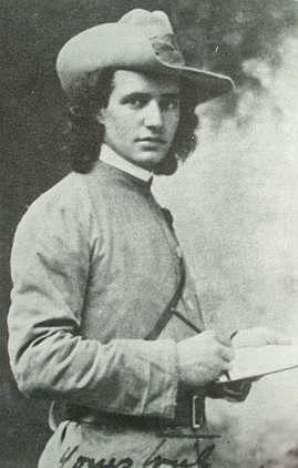 Young Fritz Duquesne